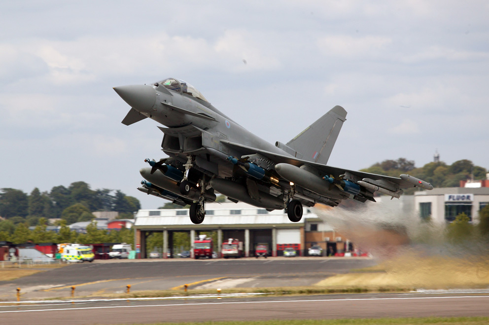 Farnborough 2010